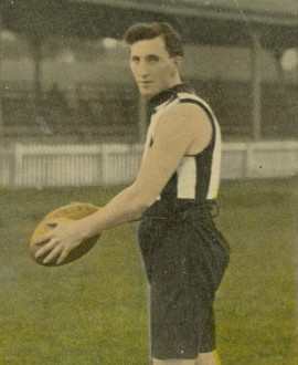 Photograph of Dan Minogue from 1911-1916